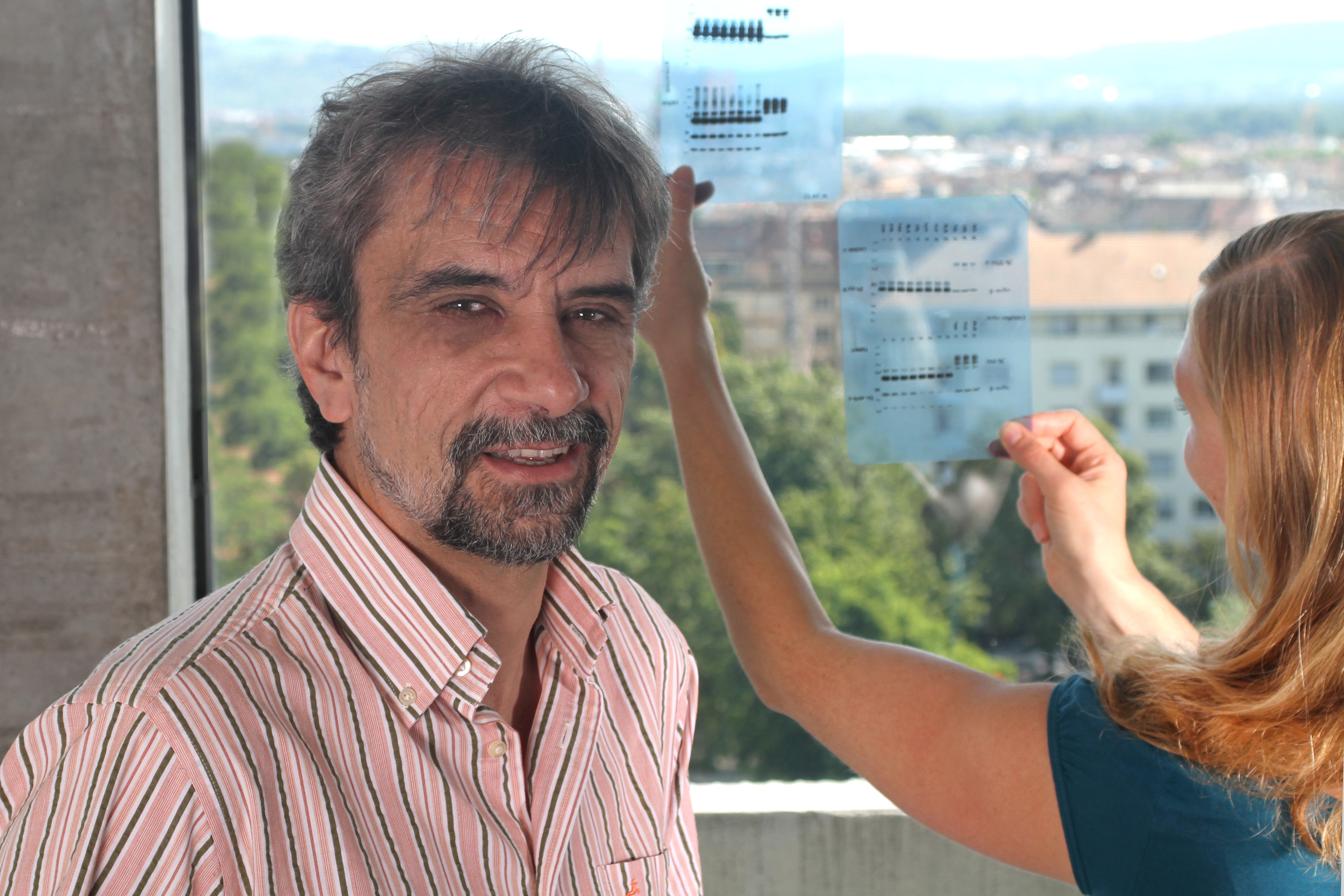 Professor Markus Rüegg